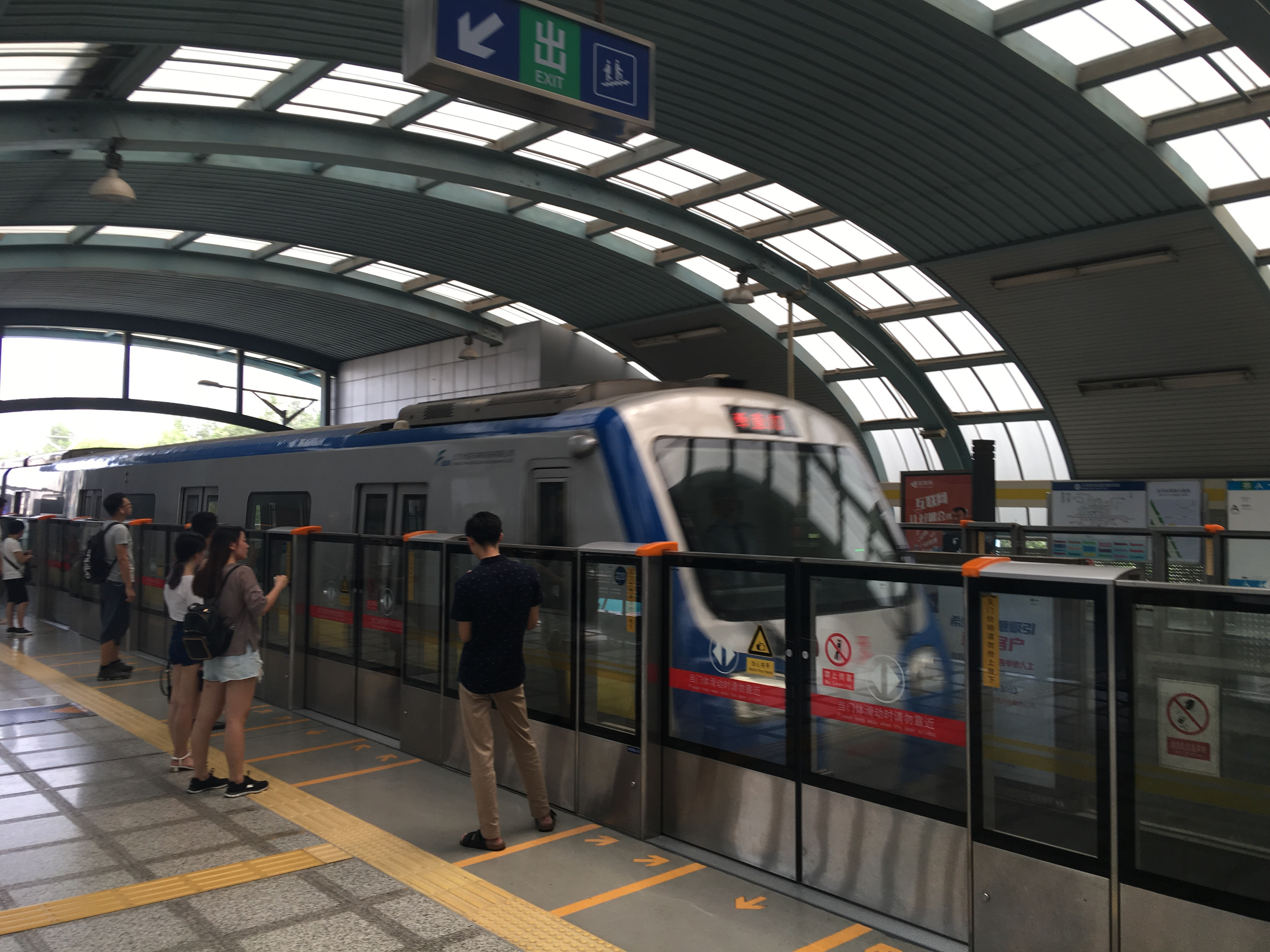 Longze Station, Subway of Northwestern Beijing